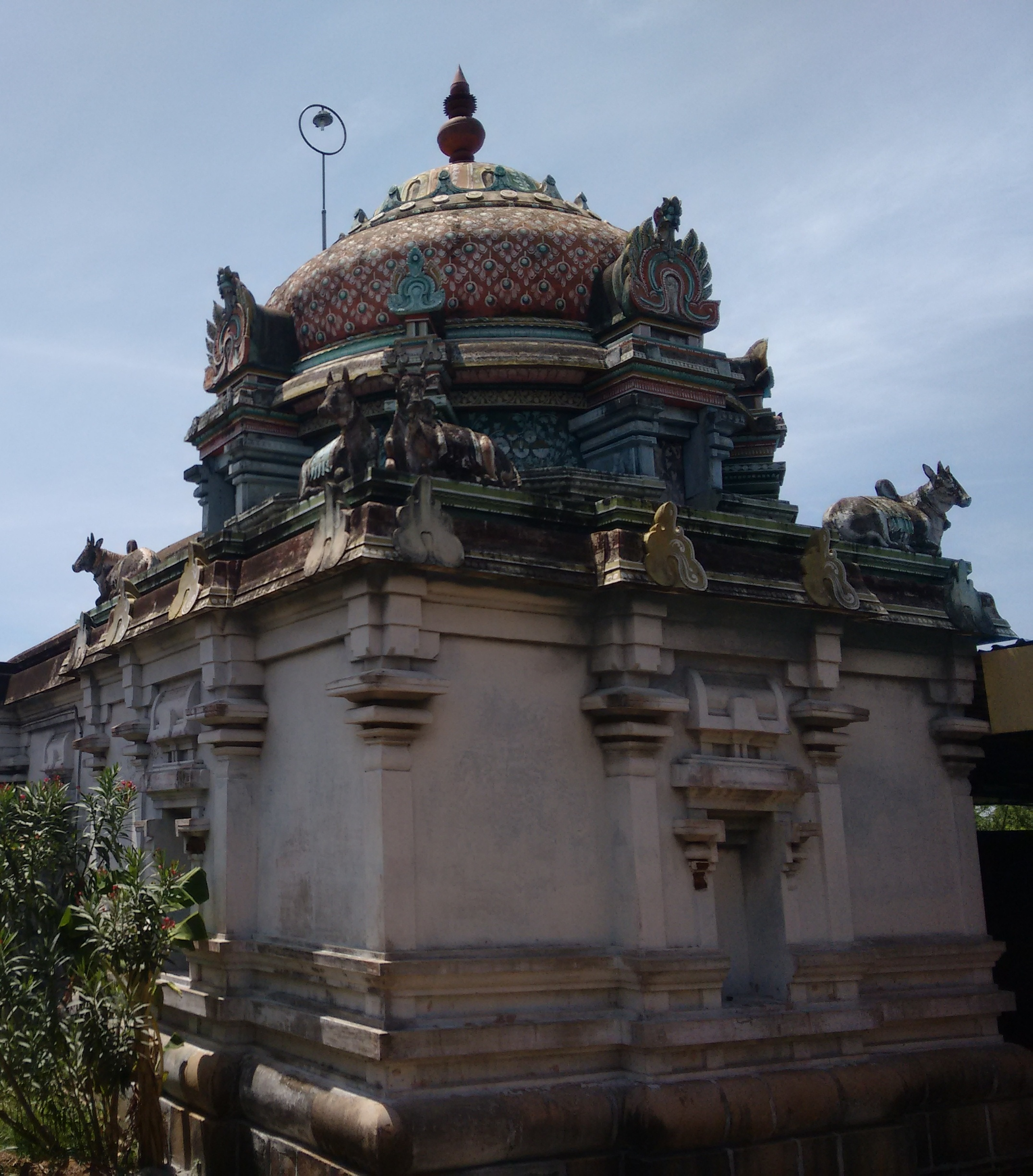 Kurakkukka Kundala Karaneswarar Temple திருக்குரக்கா குந்தளேசுவரர் கோயில்